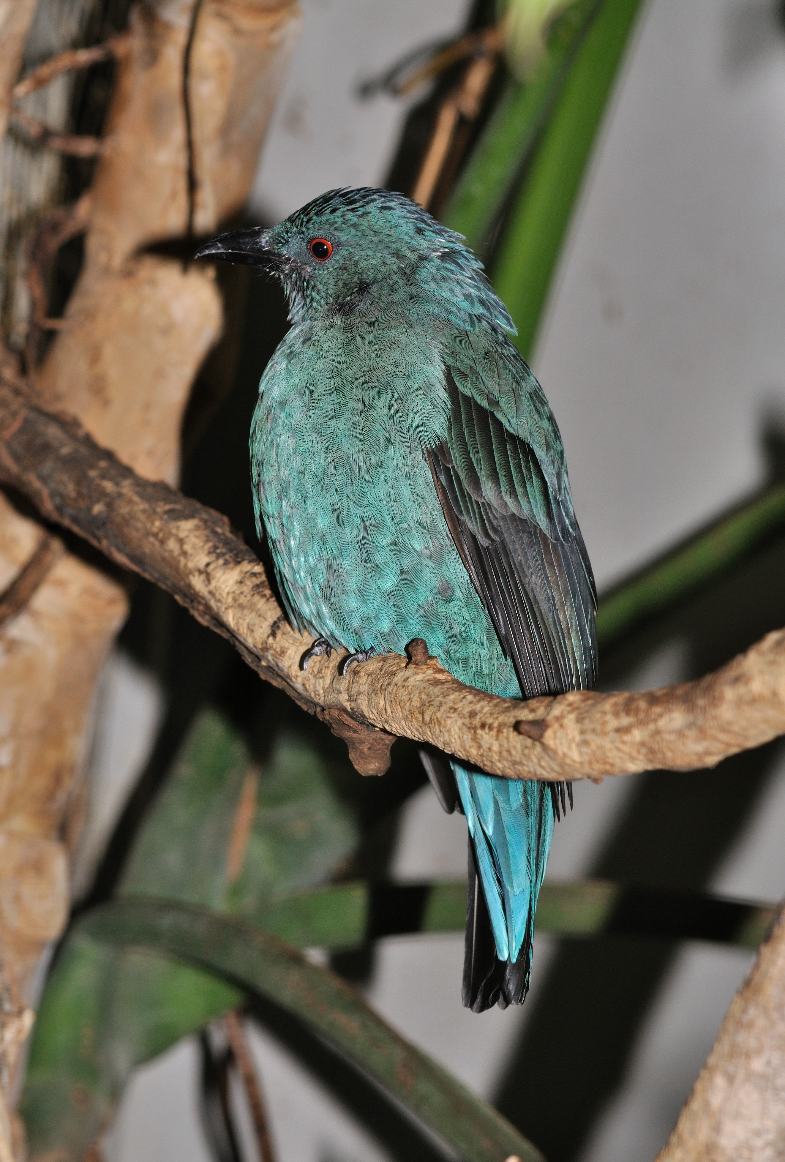 Female Asian Fairy-bluebird (Irena puella) in the Wilhelma, Stuttgart, Germany.